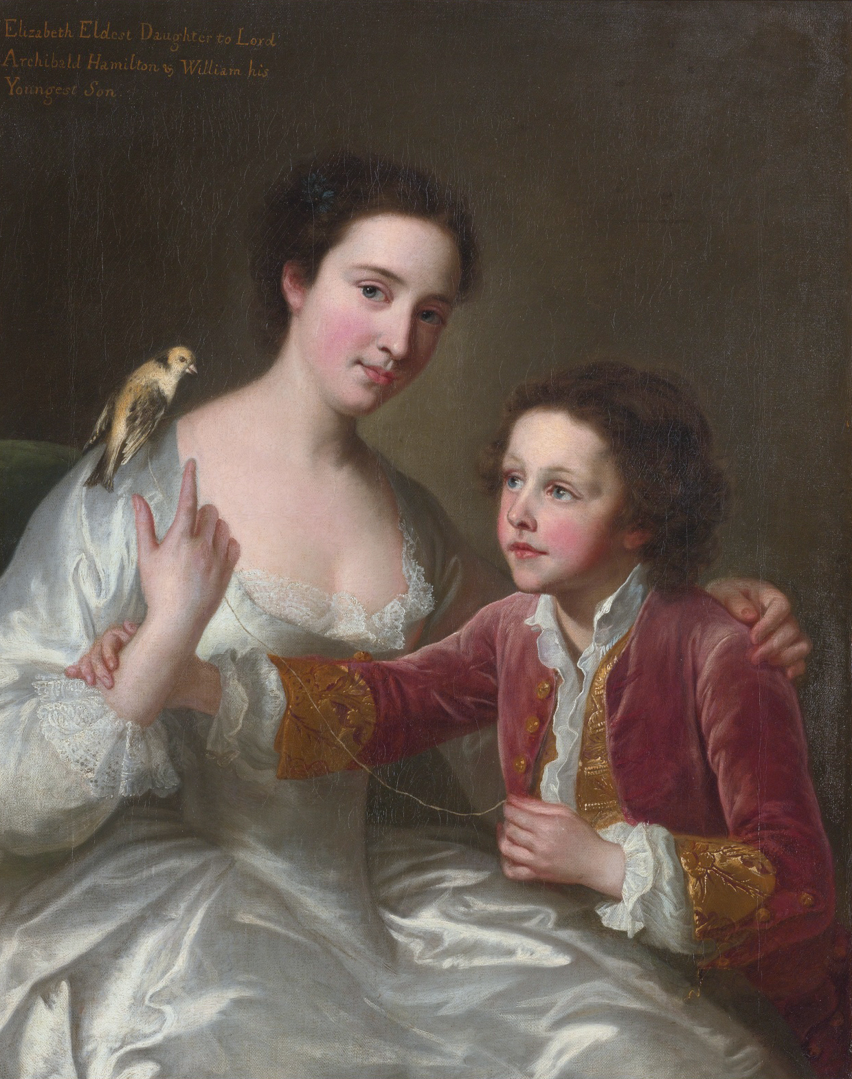 Elizabeth Hamilton, later Countess of Warwick (1720-1800), and her brother William Hamilton (1730-1803), the eldest daughter and youngerst son of Lord Archibald Hamilton.